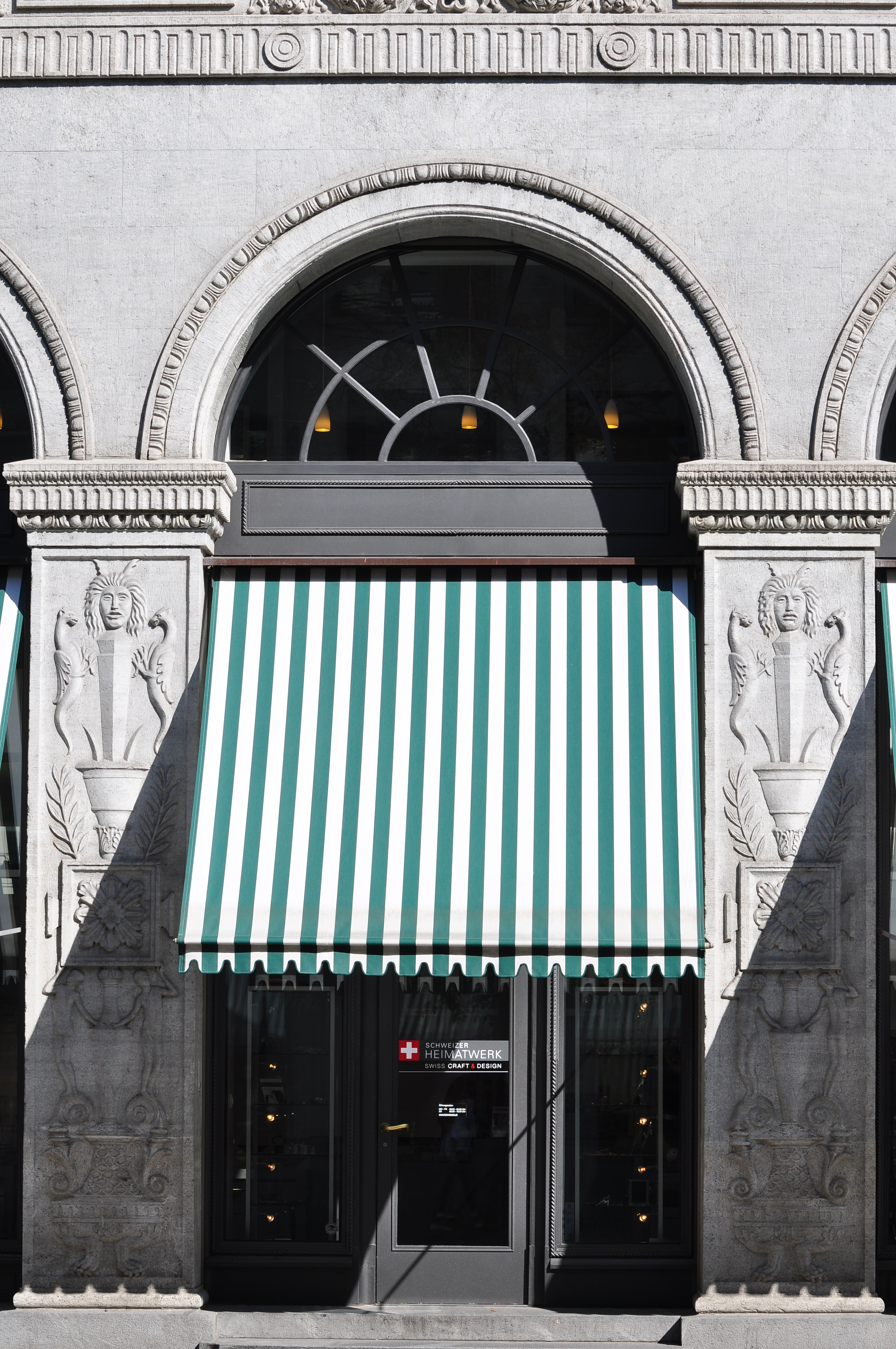 Schweizer Heimatwerk respectively Nationalbank (SNB) building, Bahnhofstrasse in Zürich (Switzerland) as seen from Bürkliplatz towards Hauptbahnhof